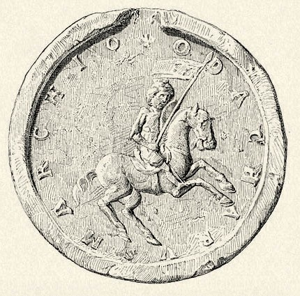 Ottokar IV of Styria (1190)